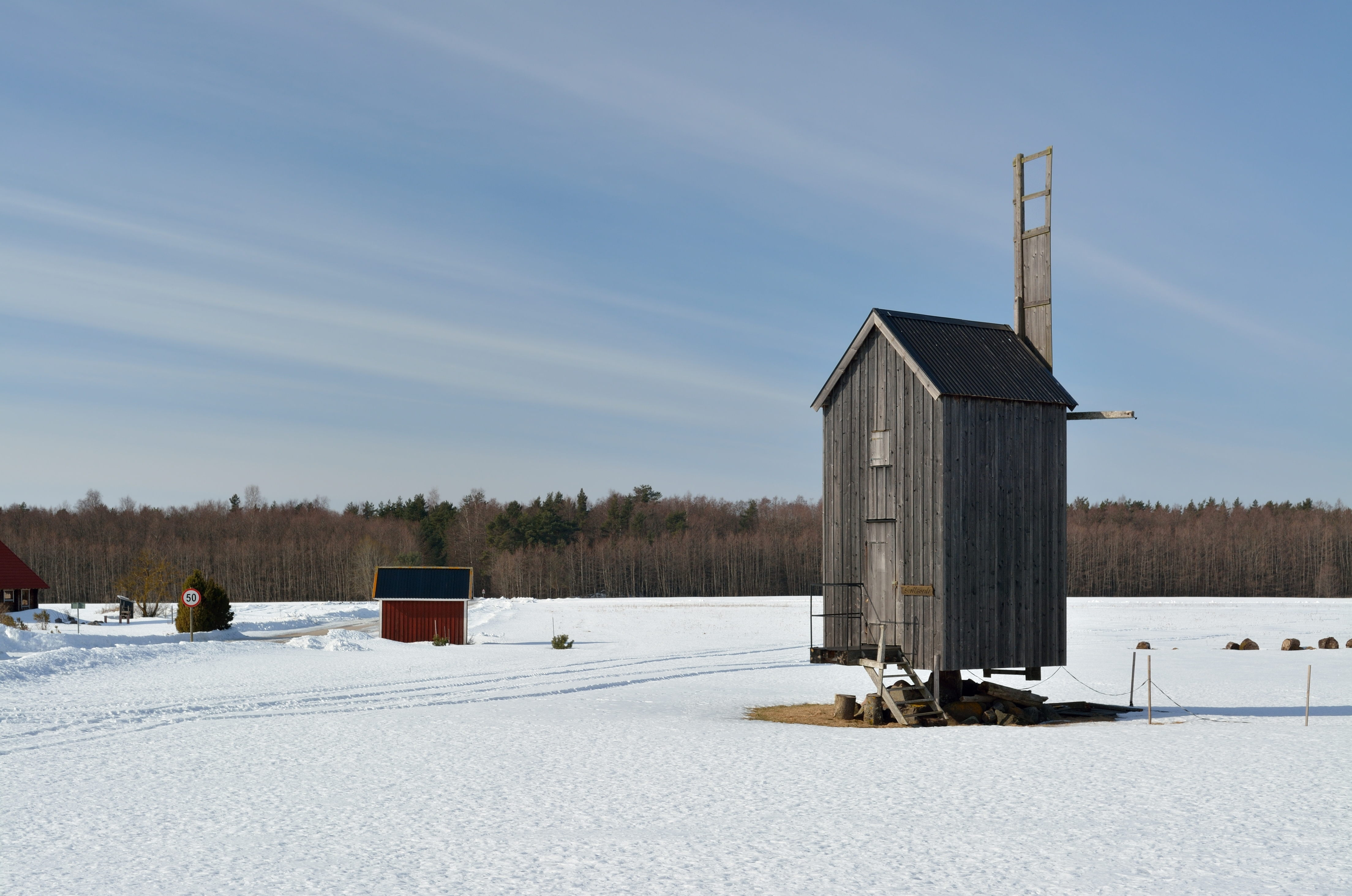 Rälby post mill